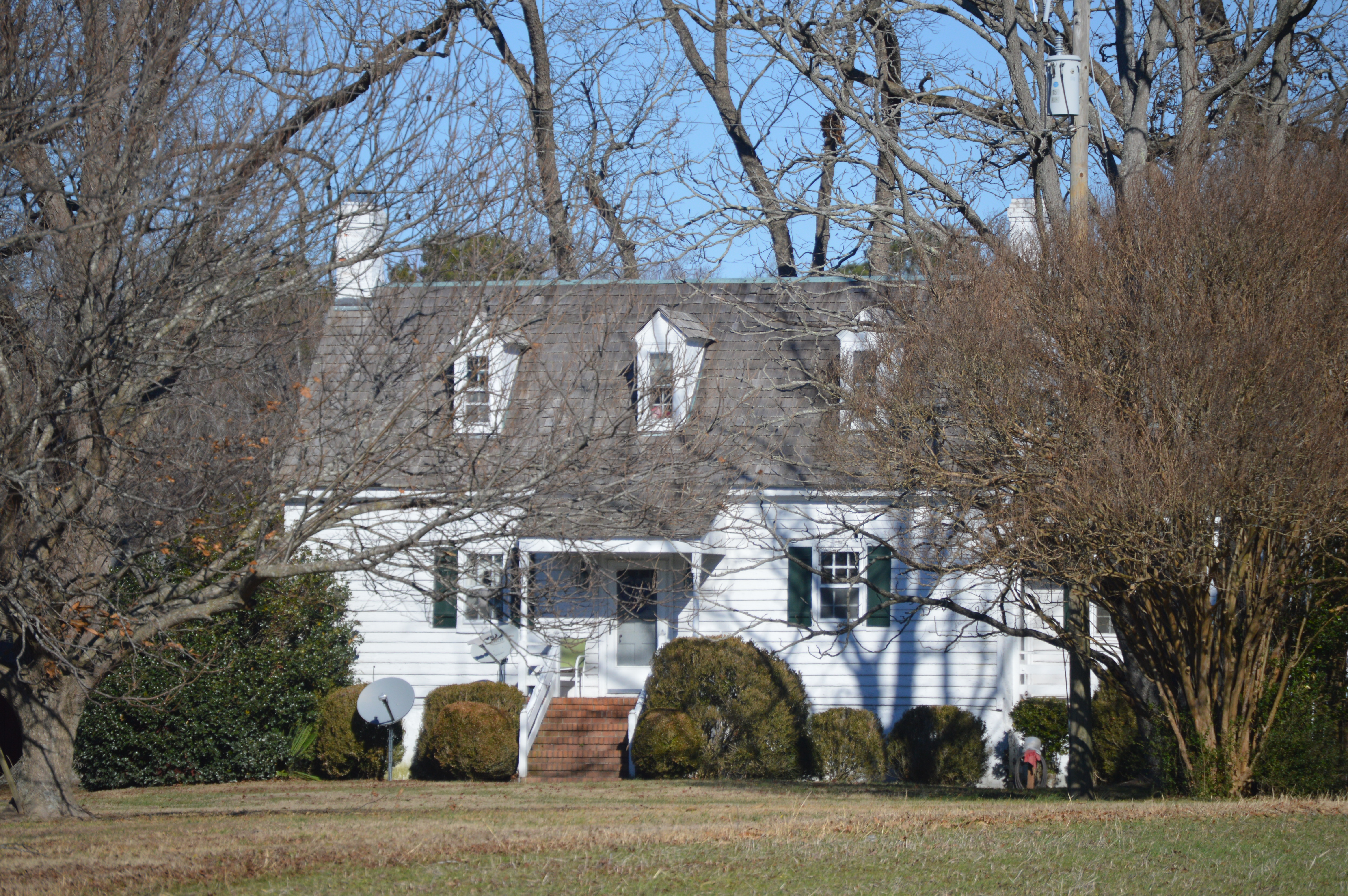 Front of the Henry Saunders House, located at 13009 Windsor Boulevard (U.S. Route 460), east of Windsor, in Isle of Wight County, Virginia, United States. Built in 1796, it is listed on the National Register of Historic Places.